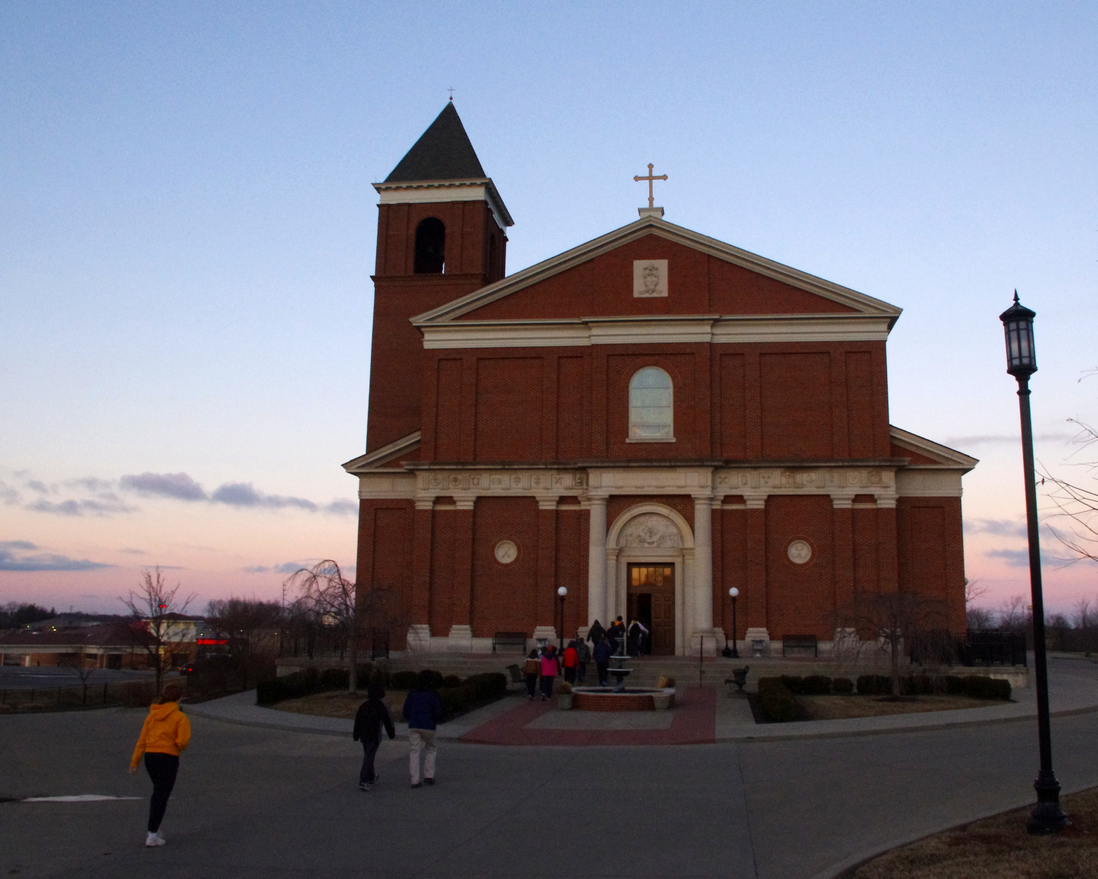 All Saints Catholic Church (Walton, Kentucky) - Mass before school